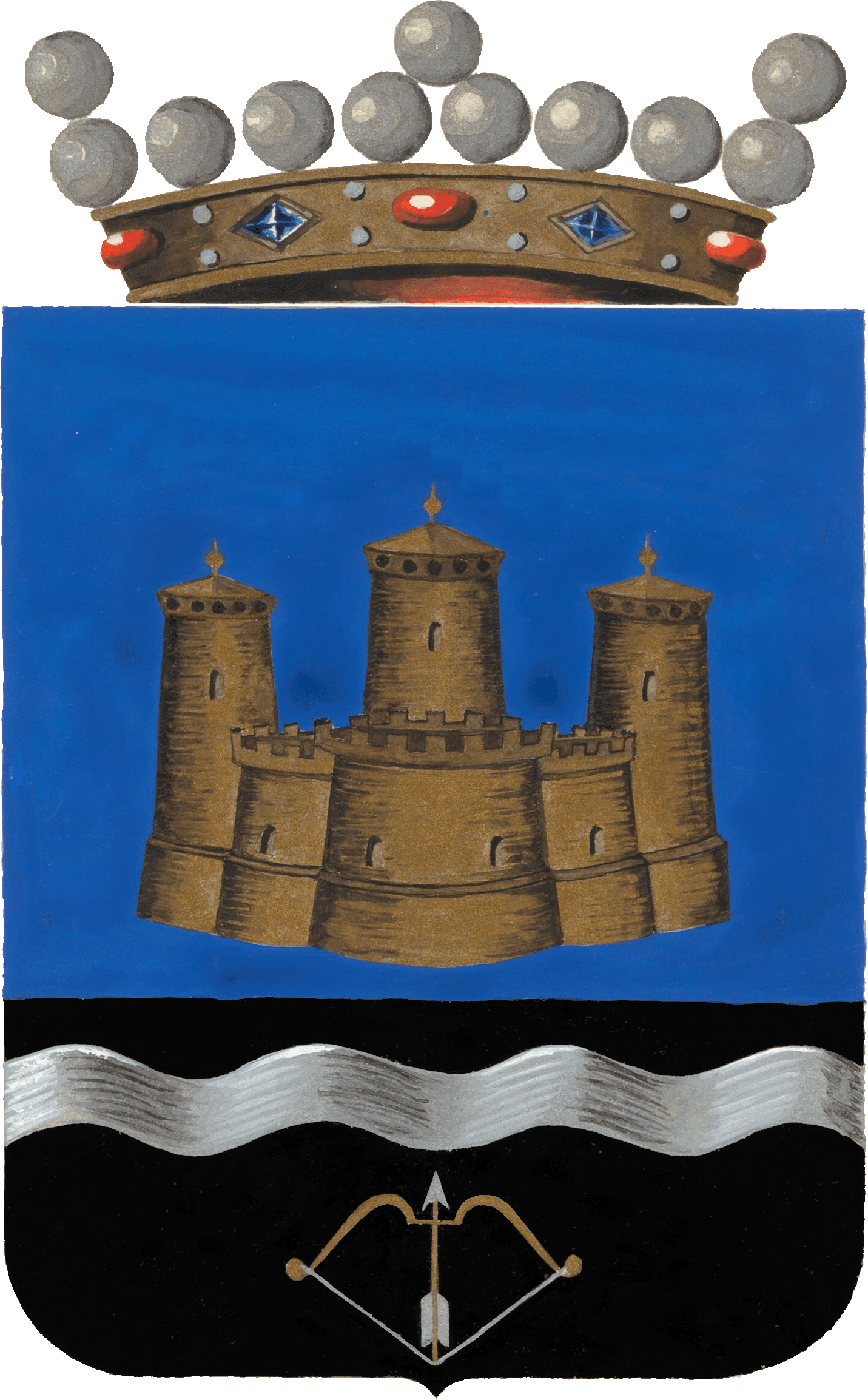 Arms of Savonlinna, Finland, from 1938